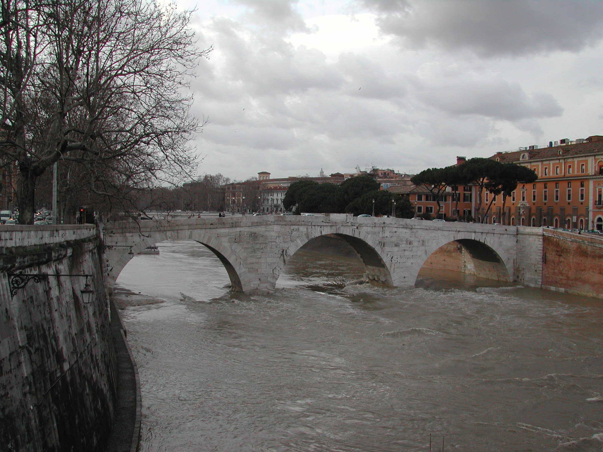 Rome Tiber bridge upstream Cestius